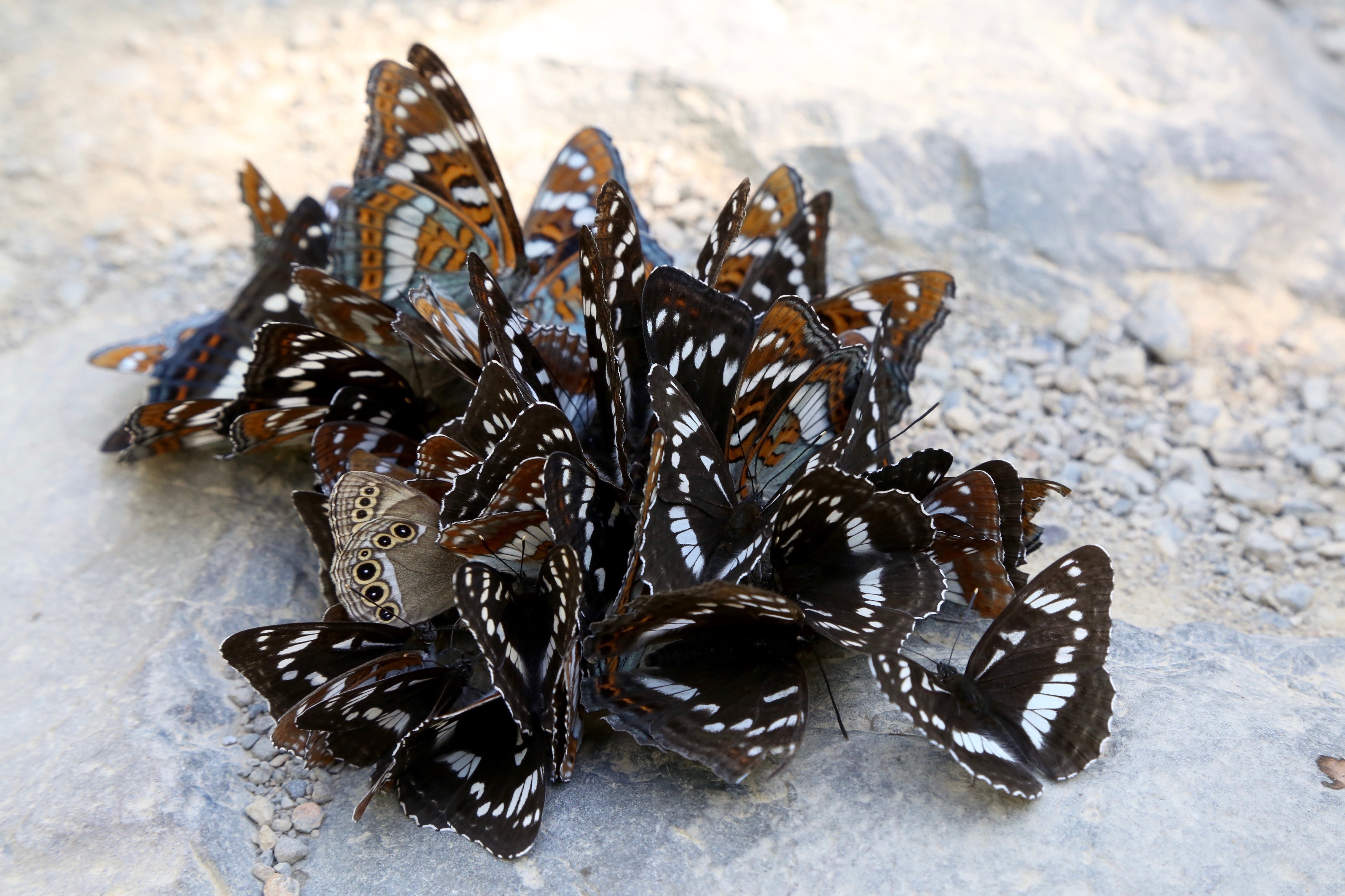 Limenitis populi, Limenitis helmanni, Limenitis amphyssa and Lopinga achine. IVO Galichny village, Khabarovsk Krai, Russian Far East